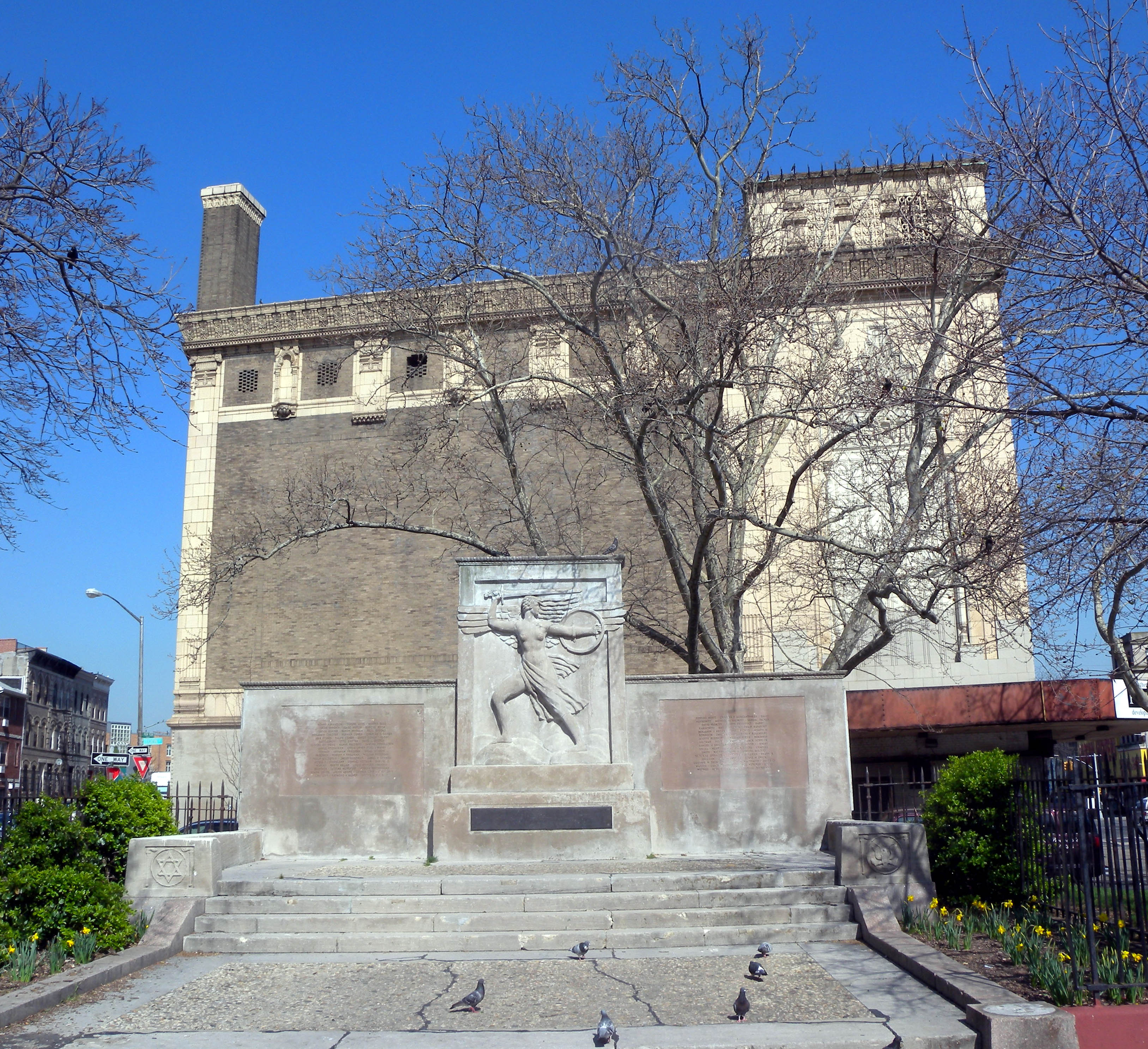 Looking east into Zion Triangle Park on a sunny afternoon. 'See File:Zion Triangle sword jeh.JPG for closeup of the monument.'